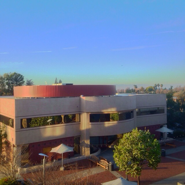 Picture of the building which is home to the library and offices of The Master's Seminary, on the campus of Grace Community Church in Sun Valley, CA.